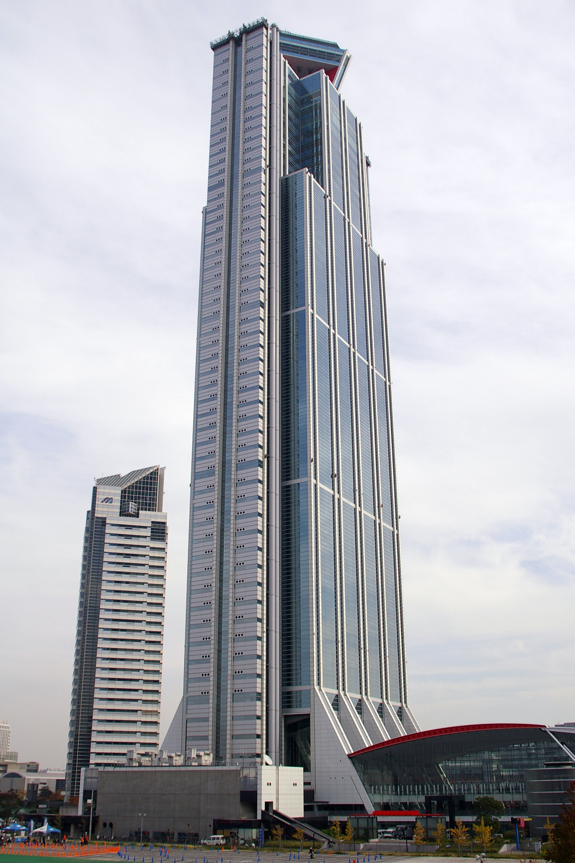 Photograph of Osaka World Trade Center Building, aka WTC Cosmo Tower, in Suminoe-ku, Osaka, Osaka Prefecture, Japan.